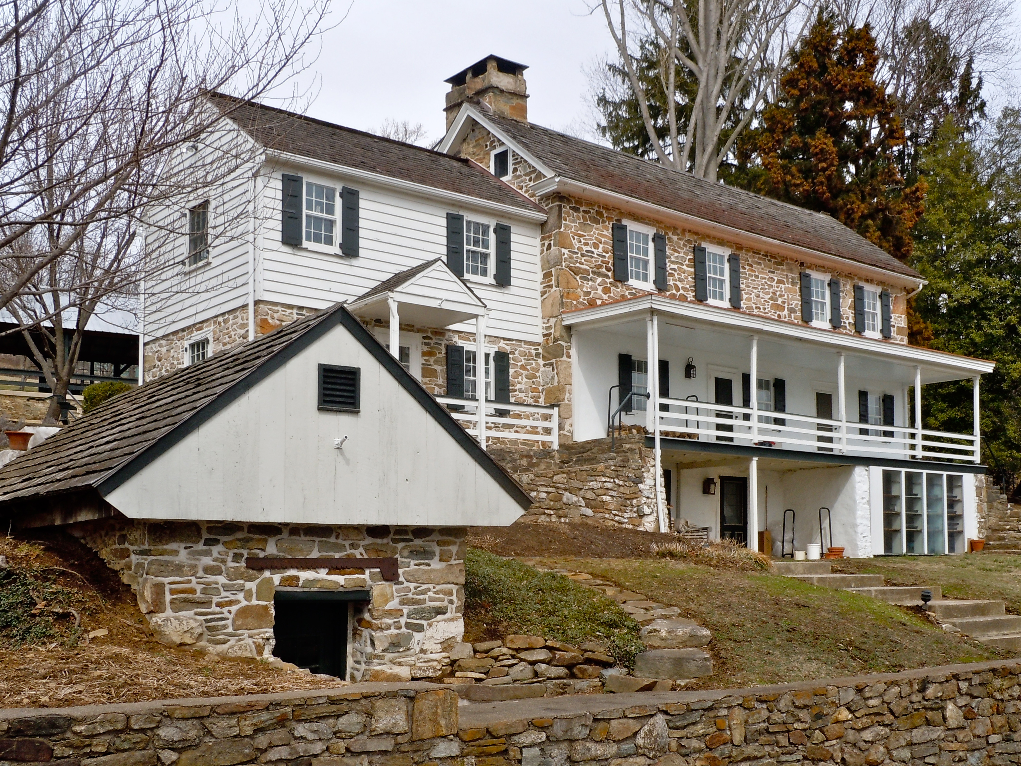 Hockley Mill Farm on the NRHP since December 18, 1990. On Warwick Furnace Road, southeast of Knauertown (east of the Warwick Furnace) in Warwick Township, Chester County, Pennsylvania.